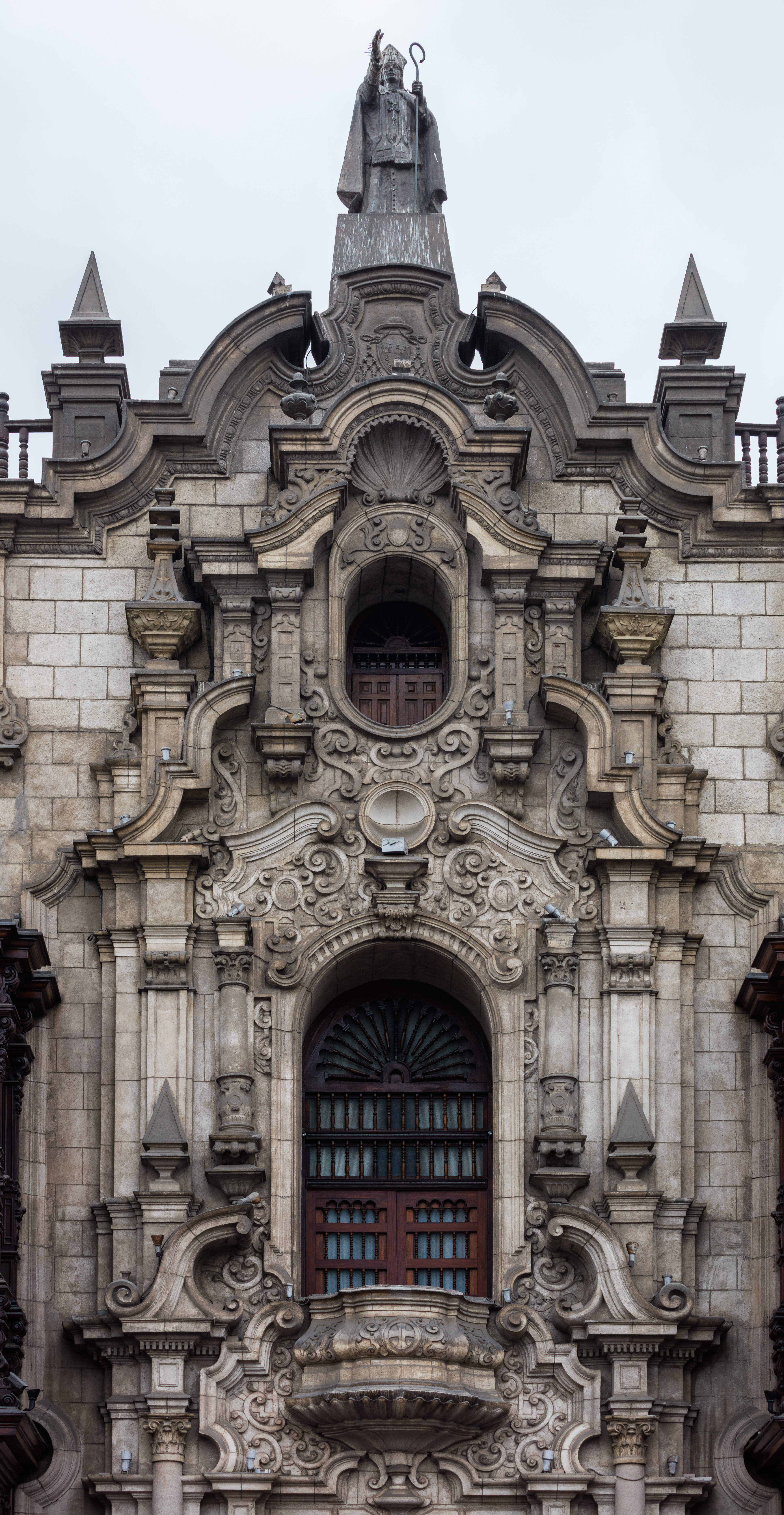 Lima Cathedral, Peru